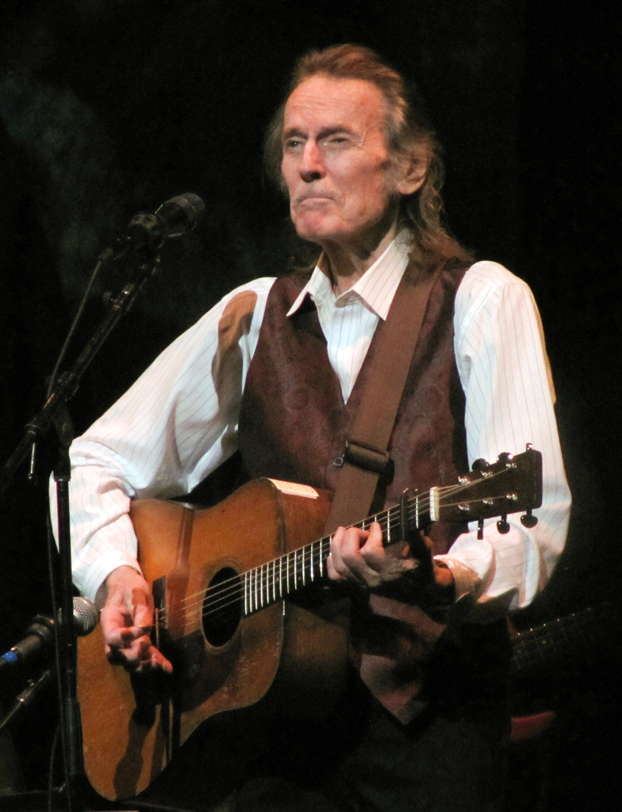 Gordon Lightfoot in concert at Interlochen, Michigan.